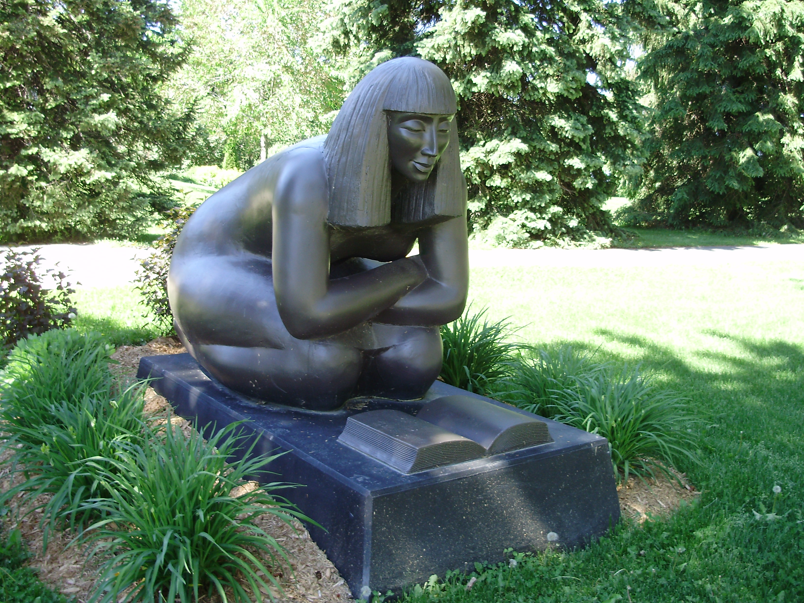 La lectrice by Roger Langevin Sculptor front Lisette-Morin library of Rimouski Qc.